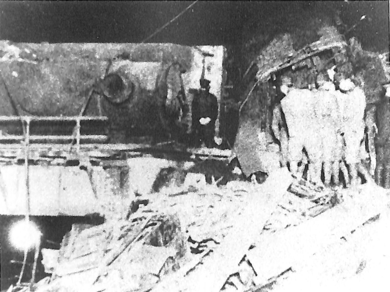 This is a scene of the train accident at Tsuchiura station in 1943.